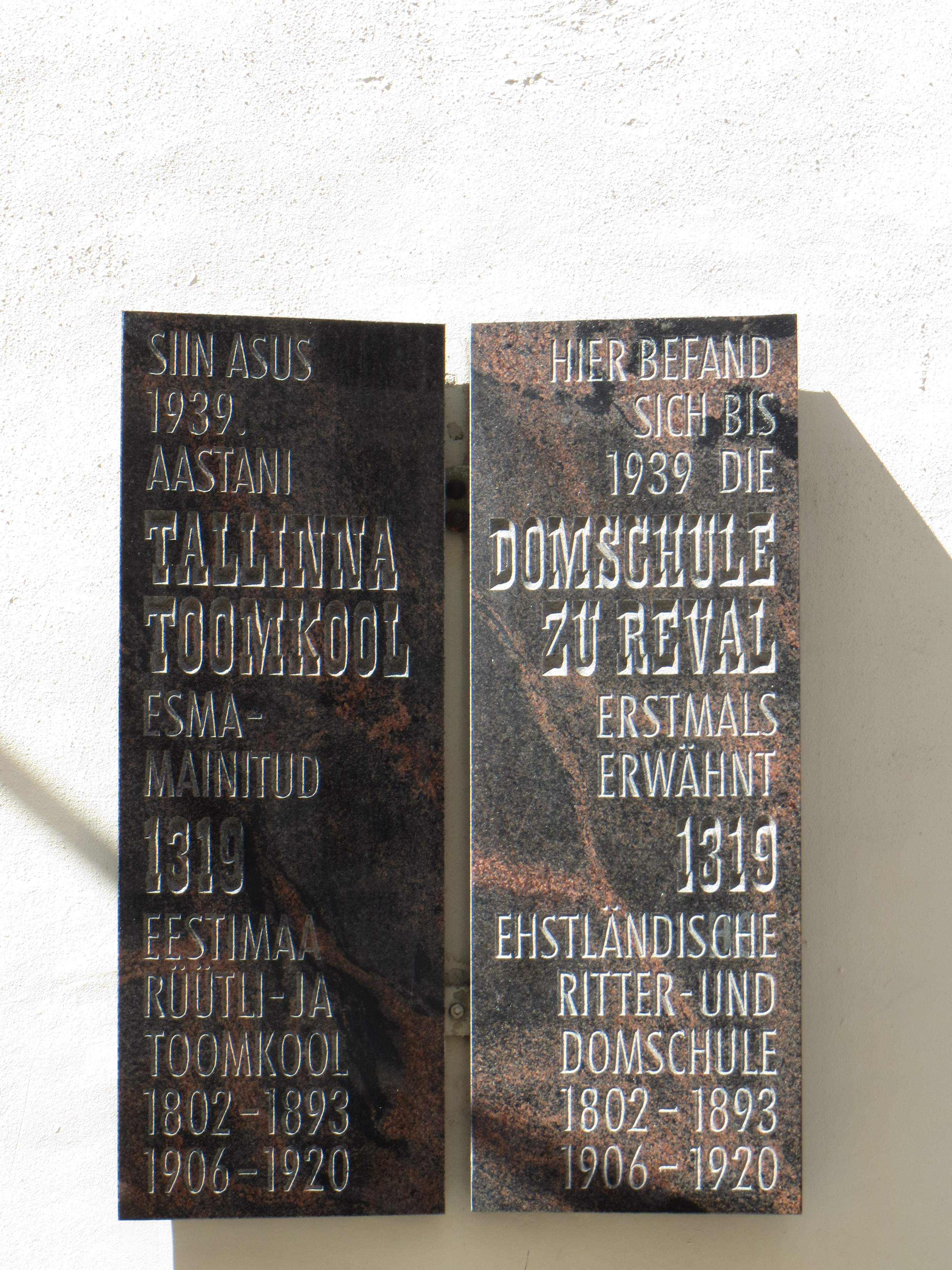 Plaque commemorating the Baltic German "Ritter- und Domschule" in Tallinn